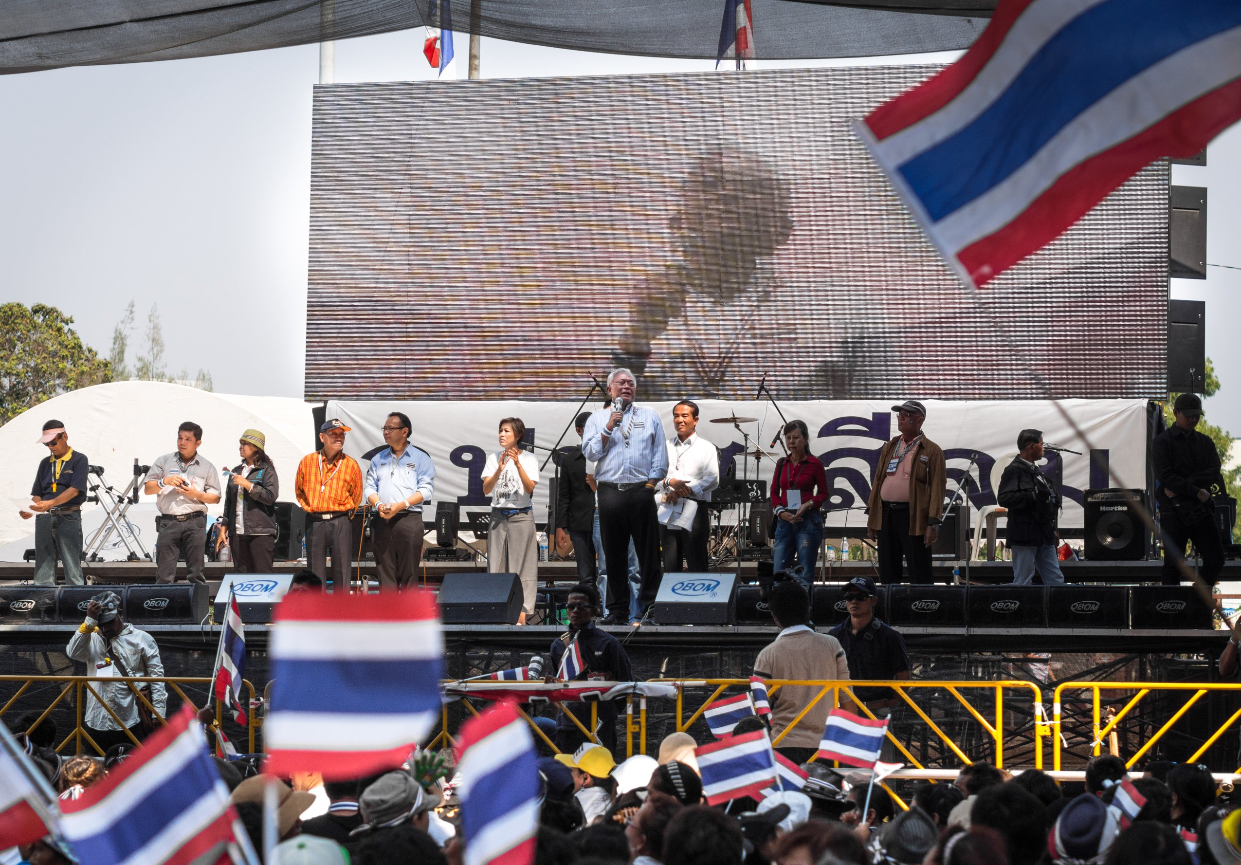 Suthep Thaugsuban holds a speech on the day of the general elections at the Silom anti-government protest site.